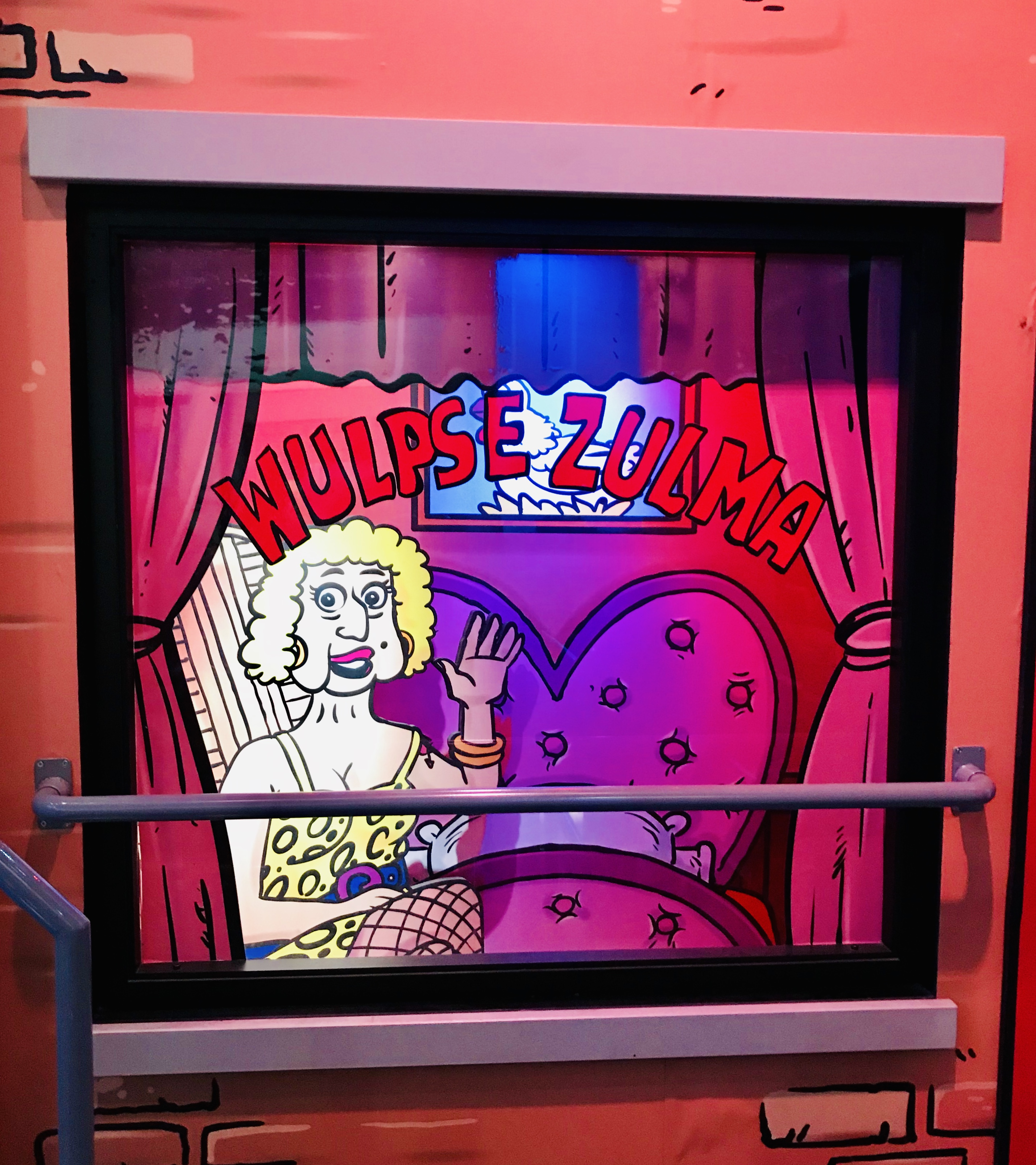 A scene of Wulpse Zulma in the Urbanus section of Comics Station Antwerp